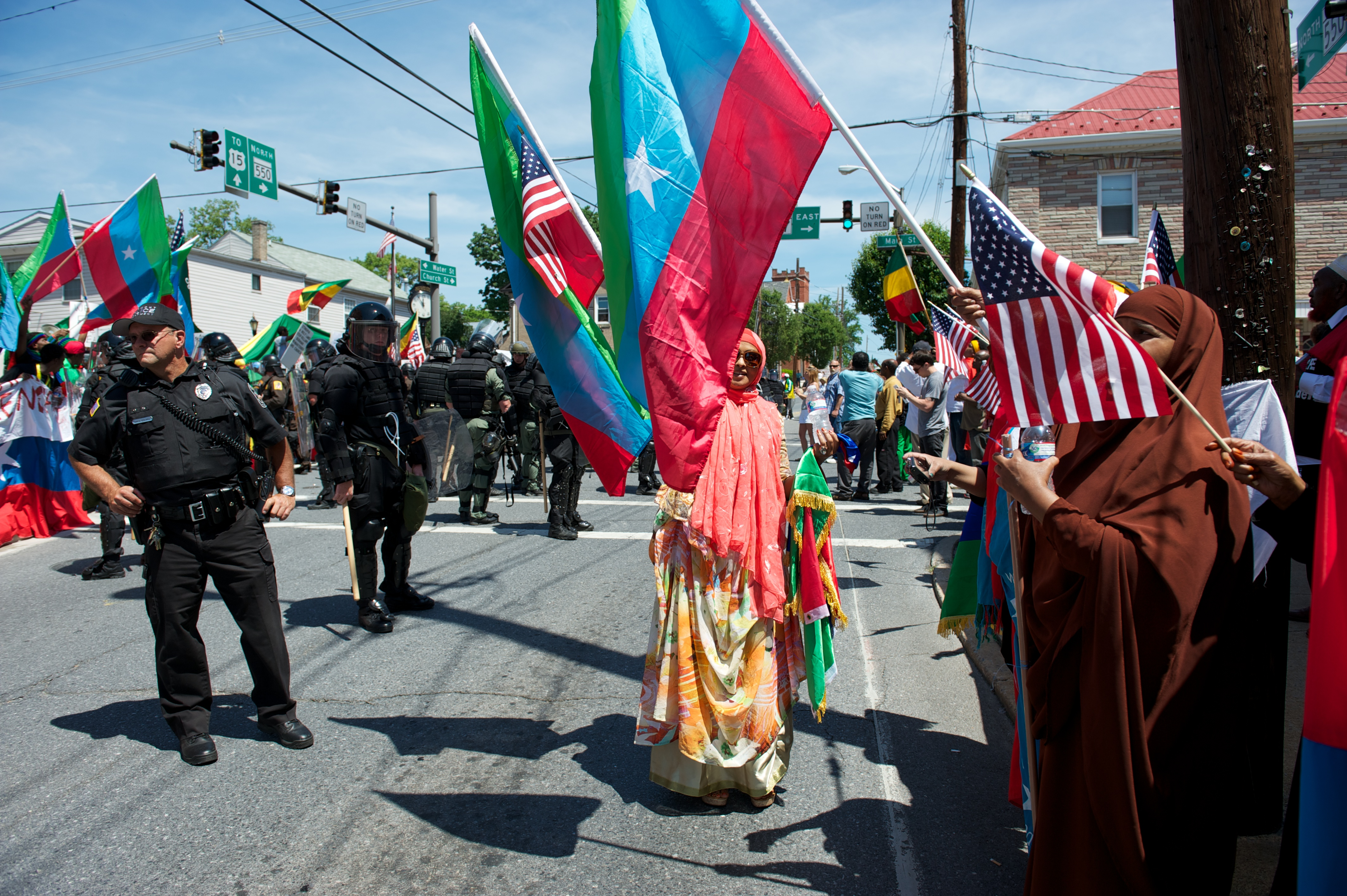 Photo of police and protesters in down town Thurmont during the 38th G8.